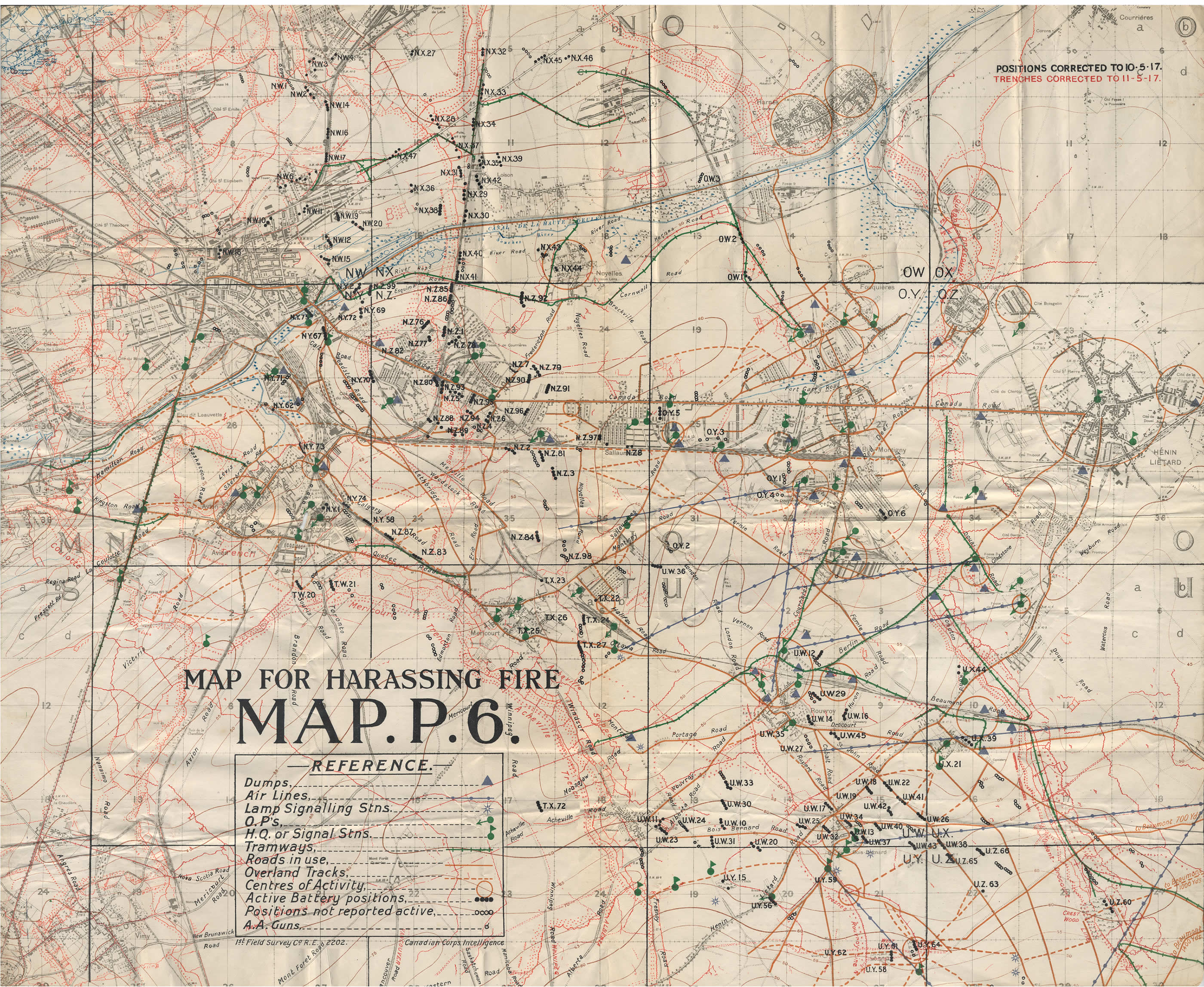 Artillery map for the Lens area, 11 May 1917. The German trenches, indicated in red, would have been targets in preparation for the battle at Hill 70 in August 1917.